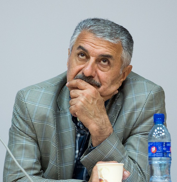 محسن صفایی فراهانی قائم‌مقام وزارت اقتصاد دولت اصلاحات در مناظره «ارزیابی کارنامه اقتصادی و رفاهی دولت یازدهم»